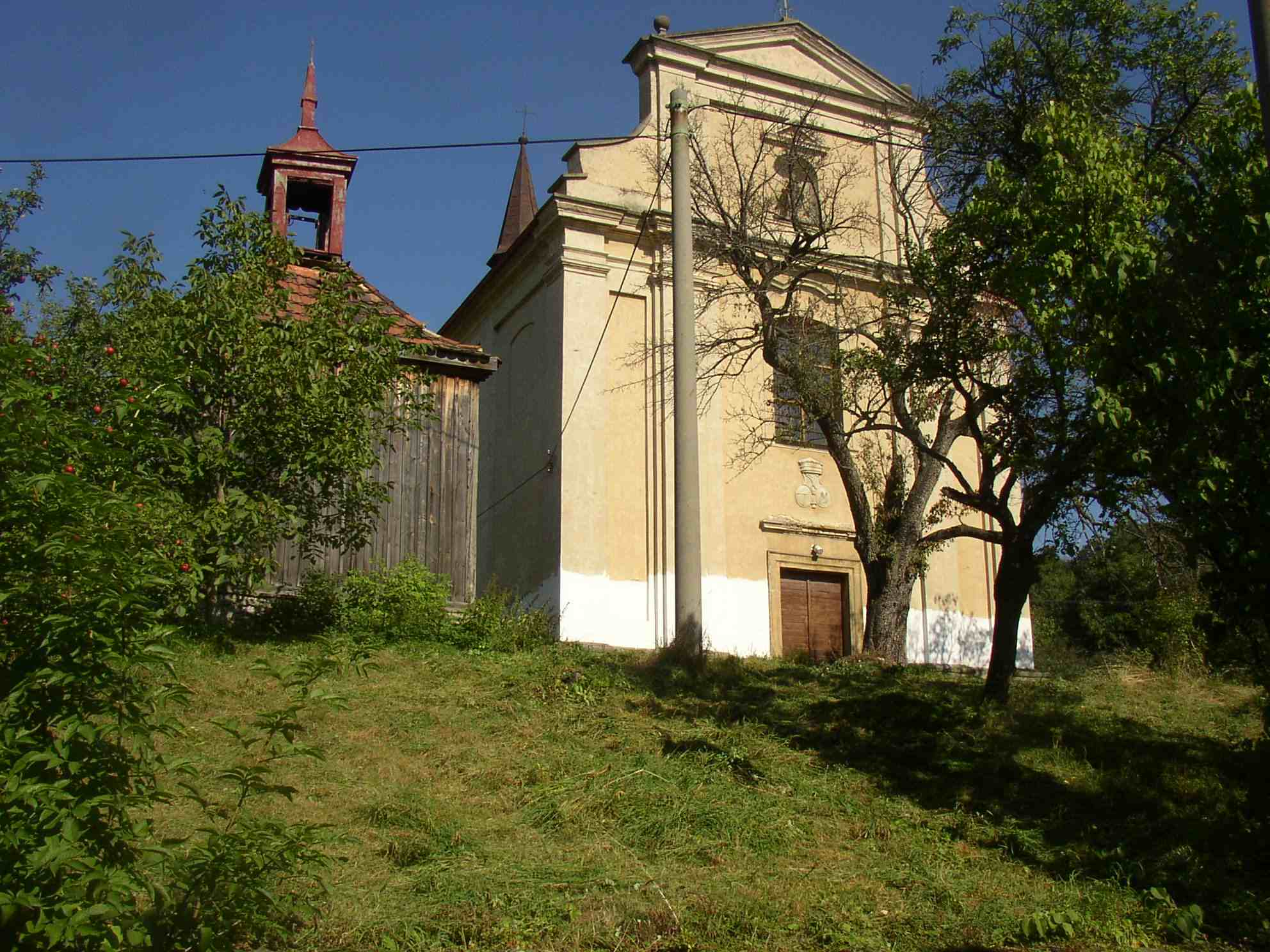 SS Peter and Paul church (1716-1724) with wooden belfry in Sutom (part of Třebenice).